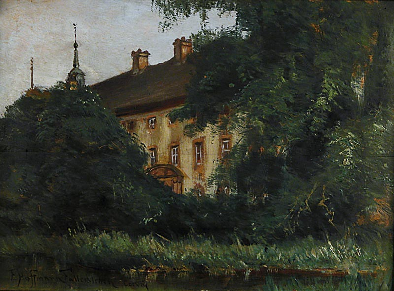 "Das Schloß in Corvey", Oil on wood, ca. 27 x 37 cm